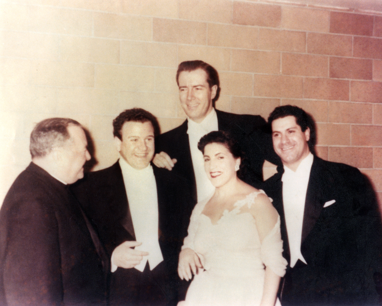 Tenor Thomas Hayward, second from left, pictured with his Metropolitan Opera colleagues, Licia Albanese, Frank Guarrera (far right) and Jerome Hines. This photograph was given to me by my teacher Thomas Hayward (tenor) shortly before he left Dallas for his new home in Las vegas. I release all rights for the use of this rare photo by whomever and for whatever they wish Fernando del Valle.